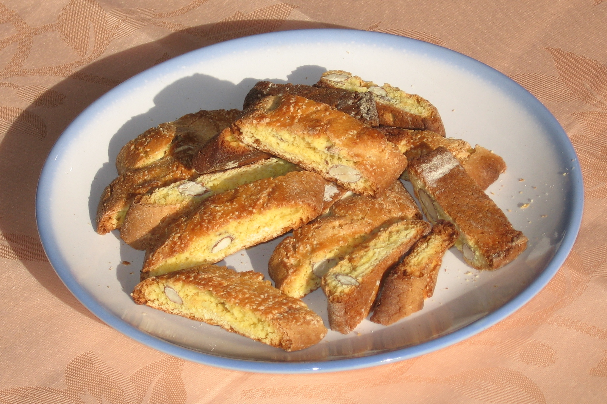 The original biscotti di Prato